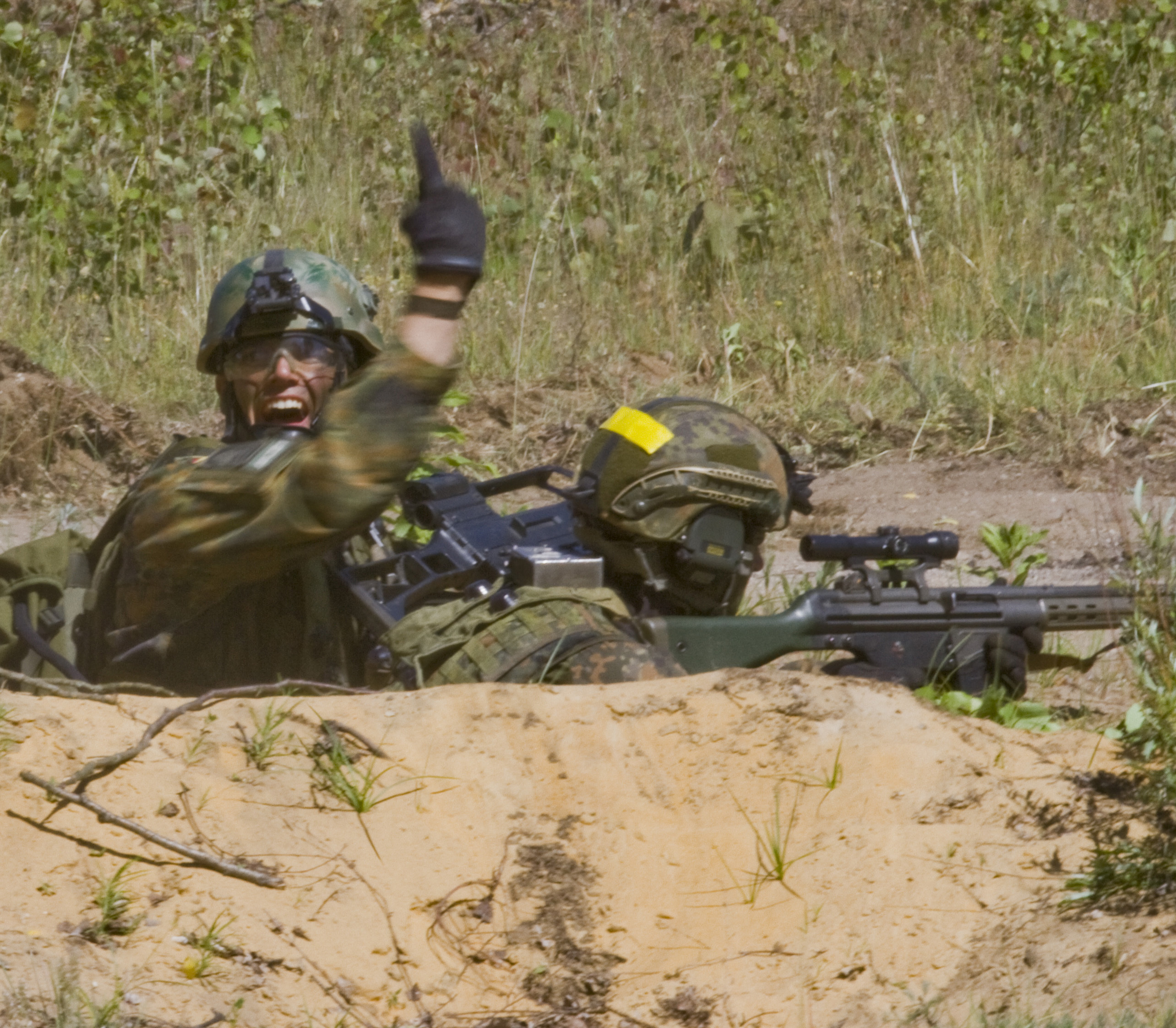 A German Army soldier assigned to 3rd Company, Jager Battalion, signals for his squad to move up during the second day of multinational training at the Great Lithuanian Hetman Jonusas Radvila Training Regiment, in Rukla, Lithuania, June 11, 2015. The training is part of a larger exercise being conducted throughout the Baltic States called Saber Strike 2015. Saber Strike is a long-standing U.S. Army Europe-led cooperative training exercise. This year’s exercise objectives facilitate cooperation between the U.S., Estonia, Latvia, Lithuania, and Poland to improve joint operational capability in a range of missions as well as preparing the participating nations and units to support multinational contingency operations. There are more than 6,000 participants from 13 different nations. (U.S. Army Photo by Sgt. James Avery, 16th Mobile Public Affairs Detachment)